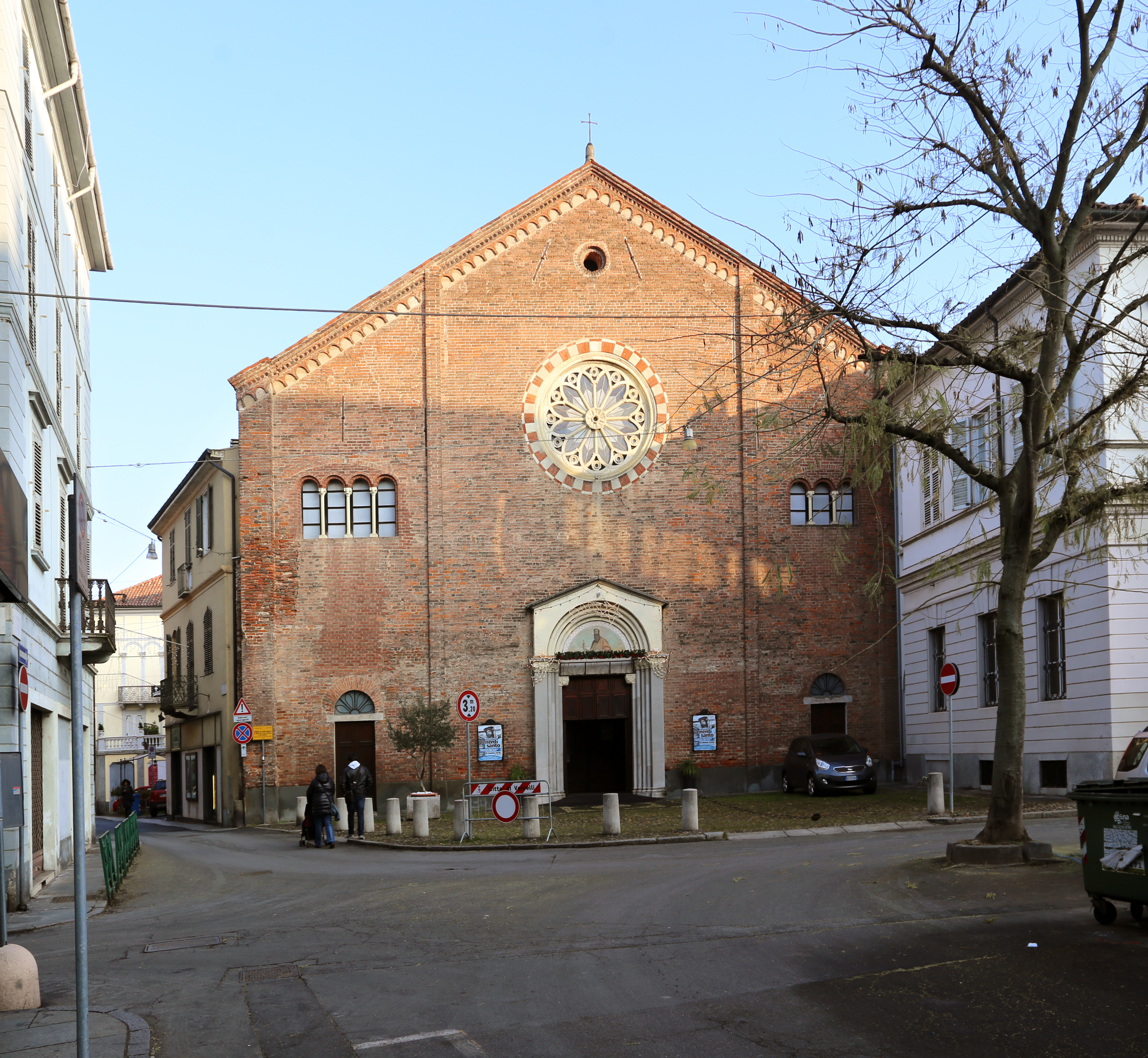 San Paolo (Vercelli)